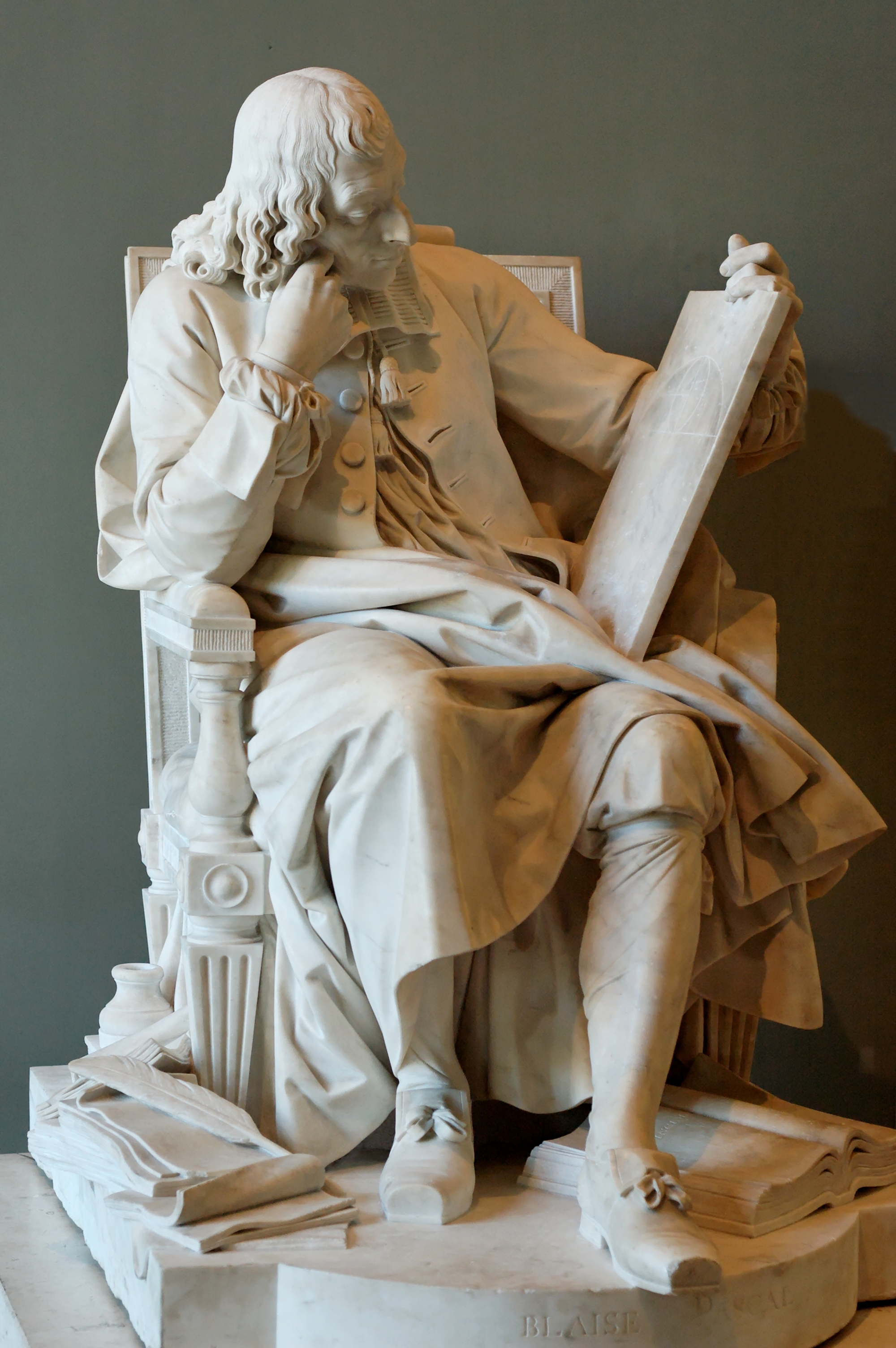 Blaise Pascal (1623–1662) studying the cycloid, engraved on the tablet he is holding in his left hand; the scattered papers at his feet are his Pensées, the open book his Lettres provinciales. Exhibited at the Salon of 1785; the plaster model was exhibited at the Salon of 1781.